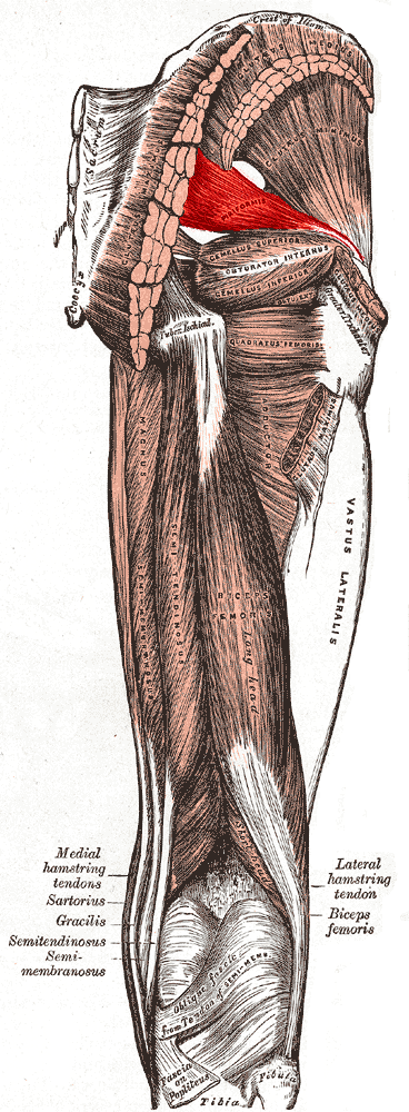 Muscles of the gluteal and posterior femoral regions with current muscle highlighted